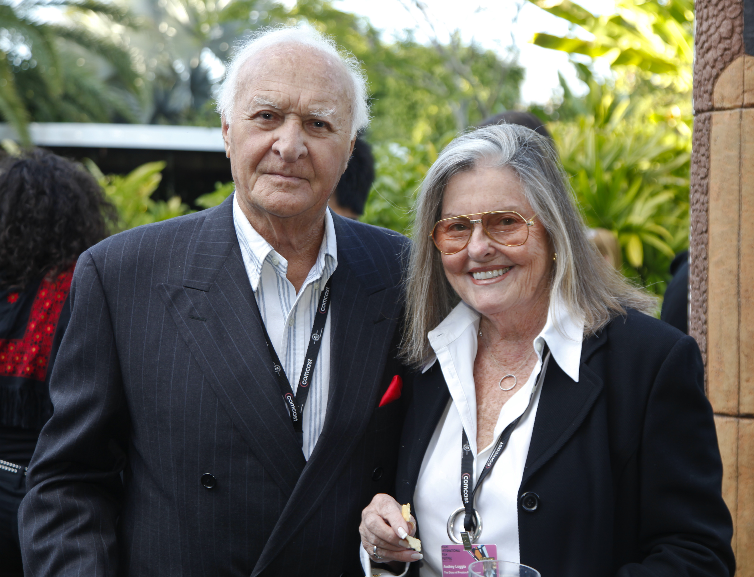 Audrey and Robert Loggia at the 2012 Miami International Film Festival "Happy Hour" at The Standard Spa Miami Beach